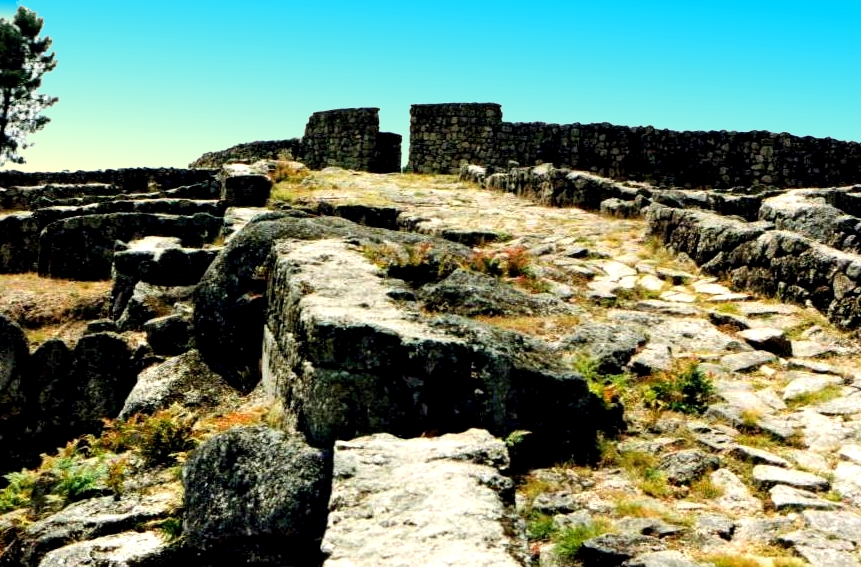 Hill Fort of Monte Mozinho, Penafiel - Portugal